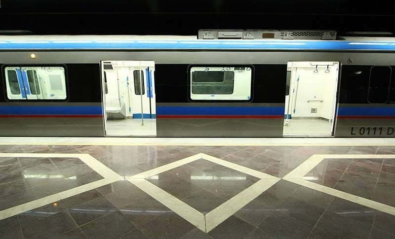 Shiraz metro